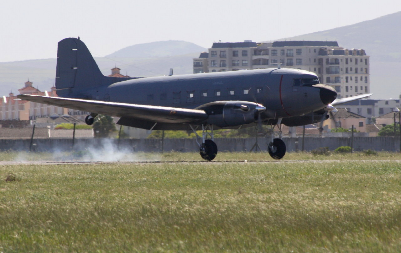 SAAF C-47ATP 6840 (3)